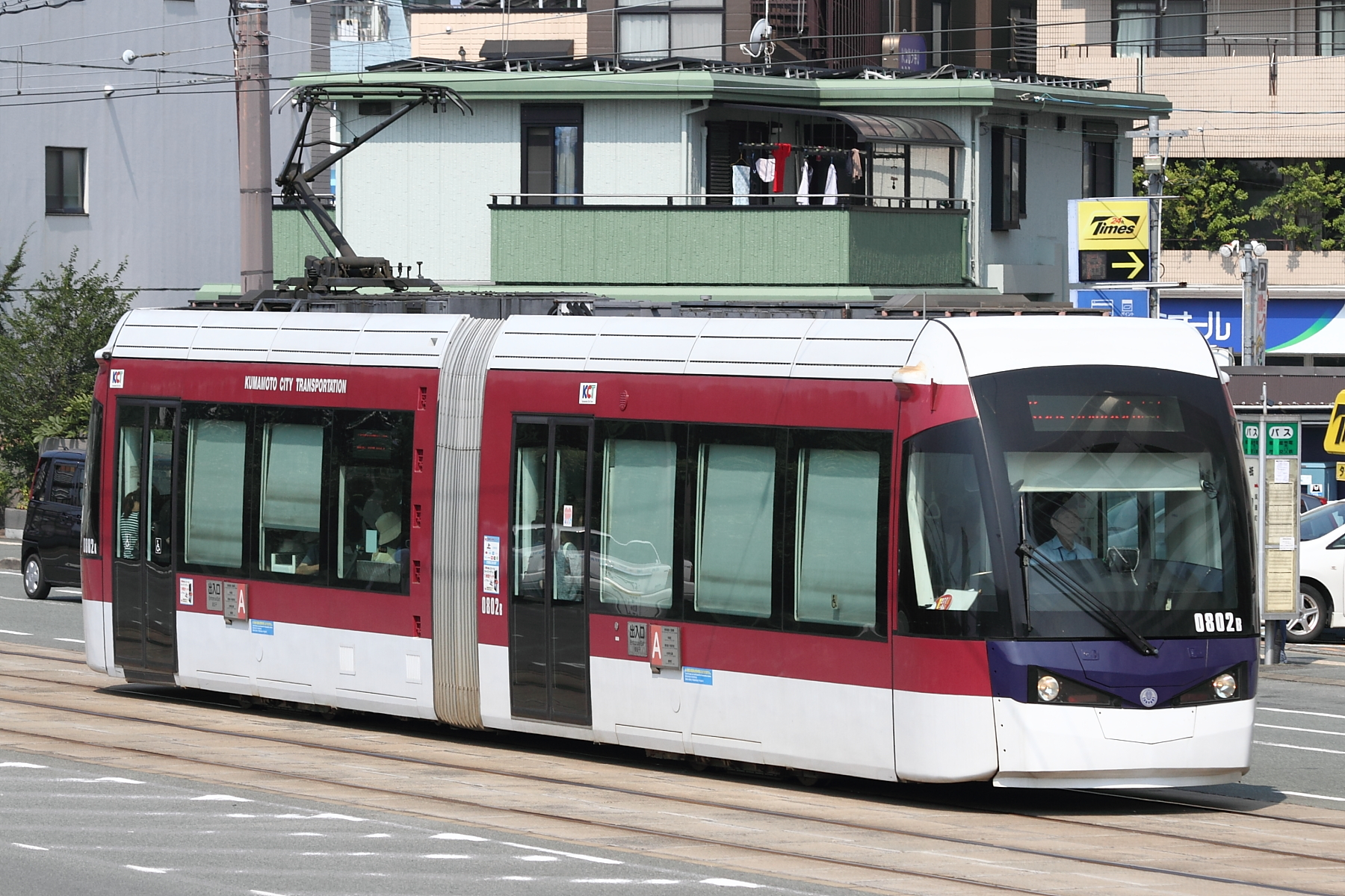 Kumamoto City Tram Type 0800 low-floor tram (No. 0802)。